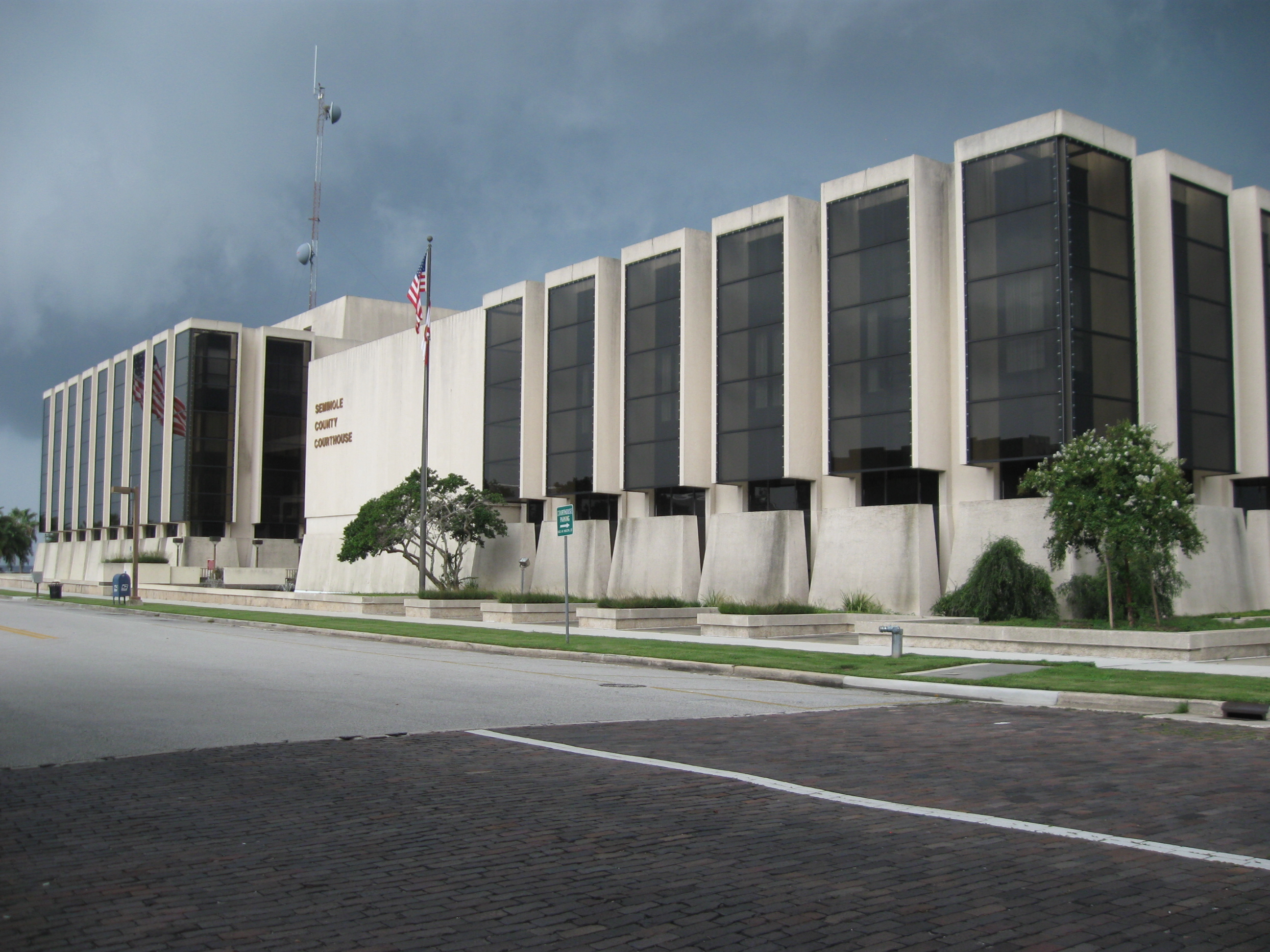 Courthouse, Seminole County, Sanford, FL